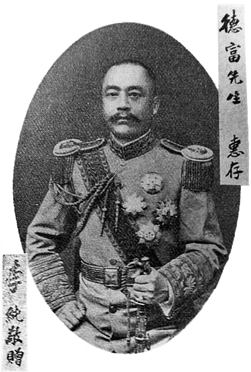 Li Chun